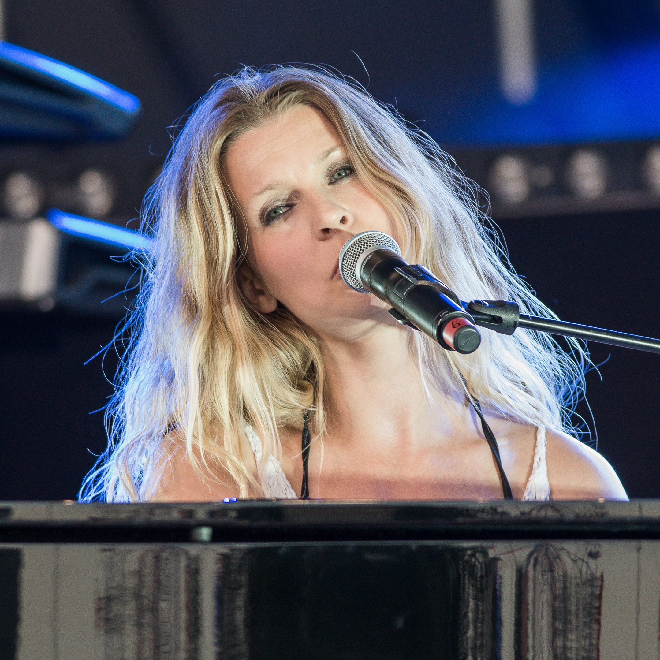 Pernilla Andersson July 2014